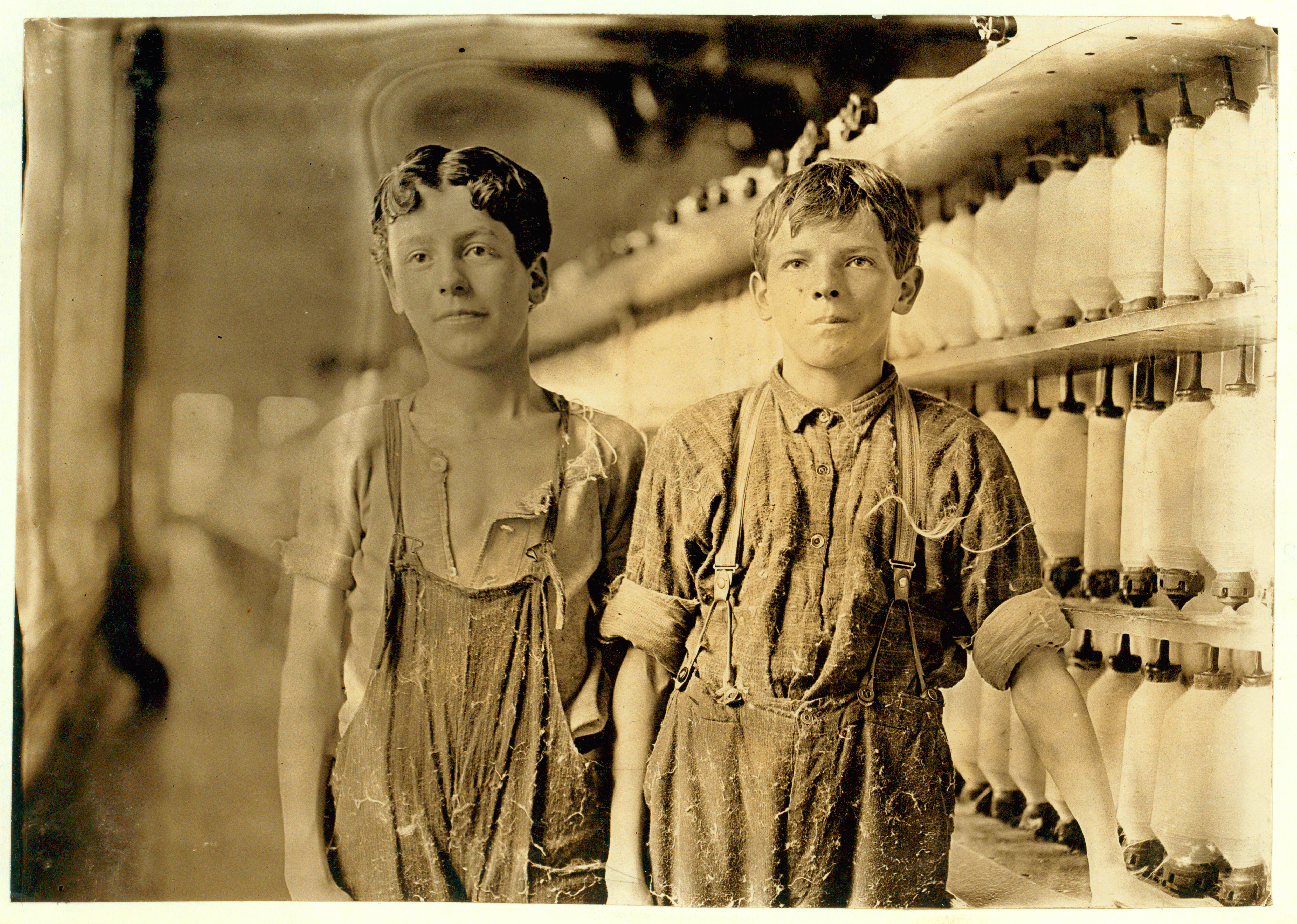 Mule-spinning room in Chace Cotton Mill, Burlington, Vt. Left hand--Leopold Daigneau, Arsene Lussier, "Back-roping boys." See photo and label #730. Location: Burlington, Vermont.